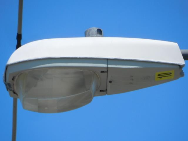 History of street lighting: General Electric, M250A1